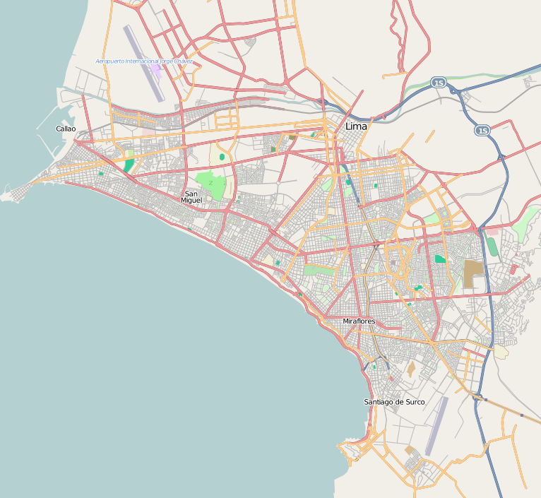 Map of Lima, Peru Geographic limits of the map: N: -11.9973° S: -12.1883° W: -77.1703° E: -76.9582°